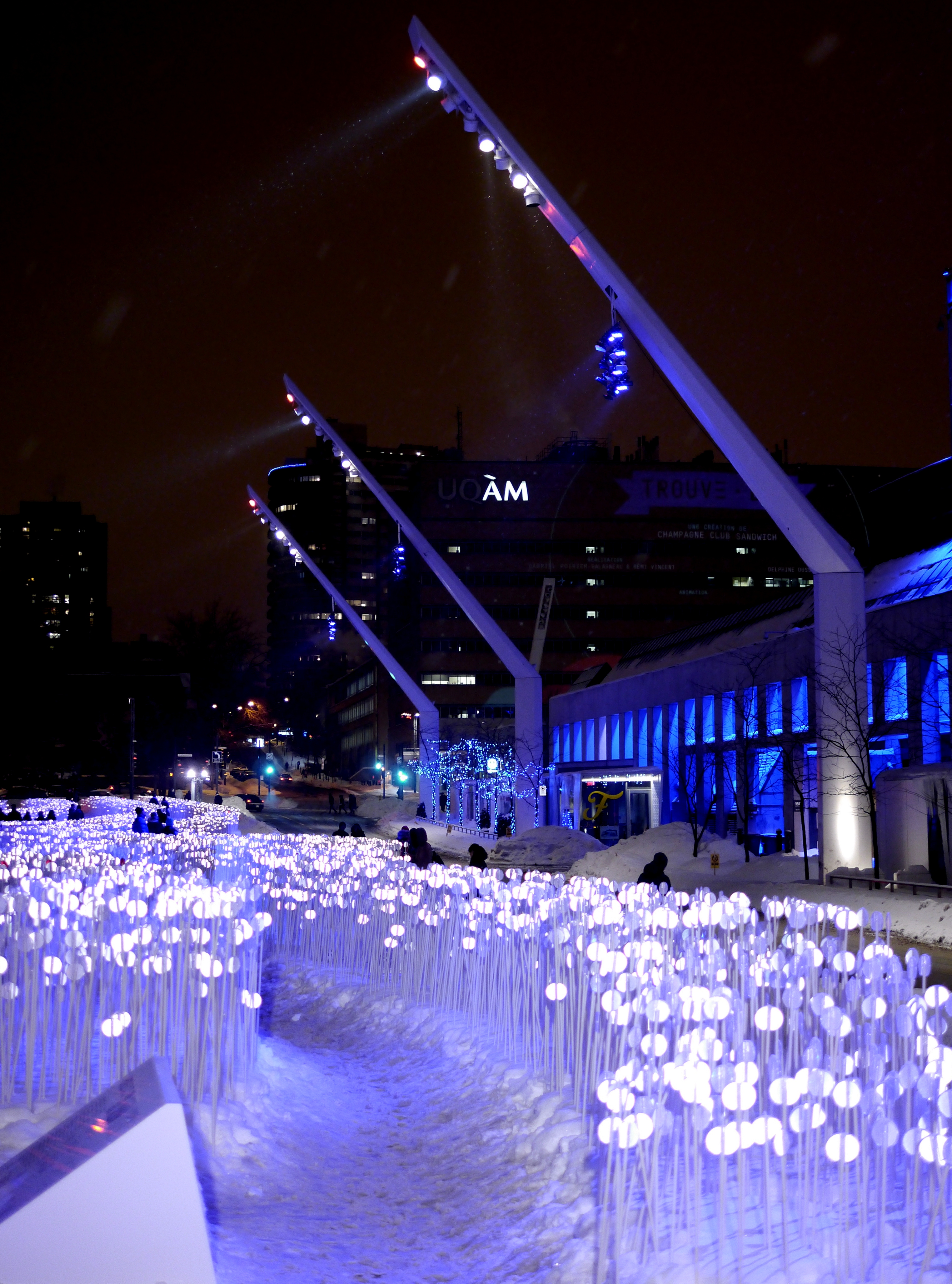 4th edition of «Luminothérapie» 2013/2014, Entre les rangs in Quartier des spectacles in Montreal, on December 27th 2013.